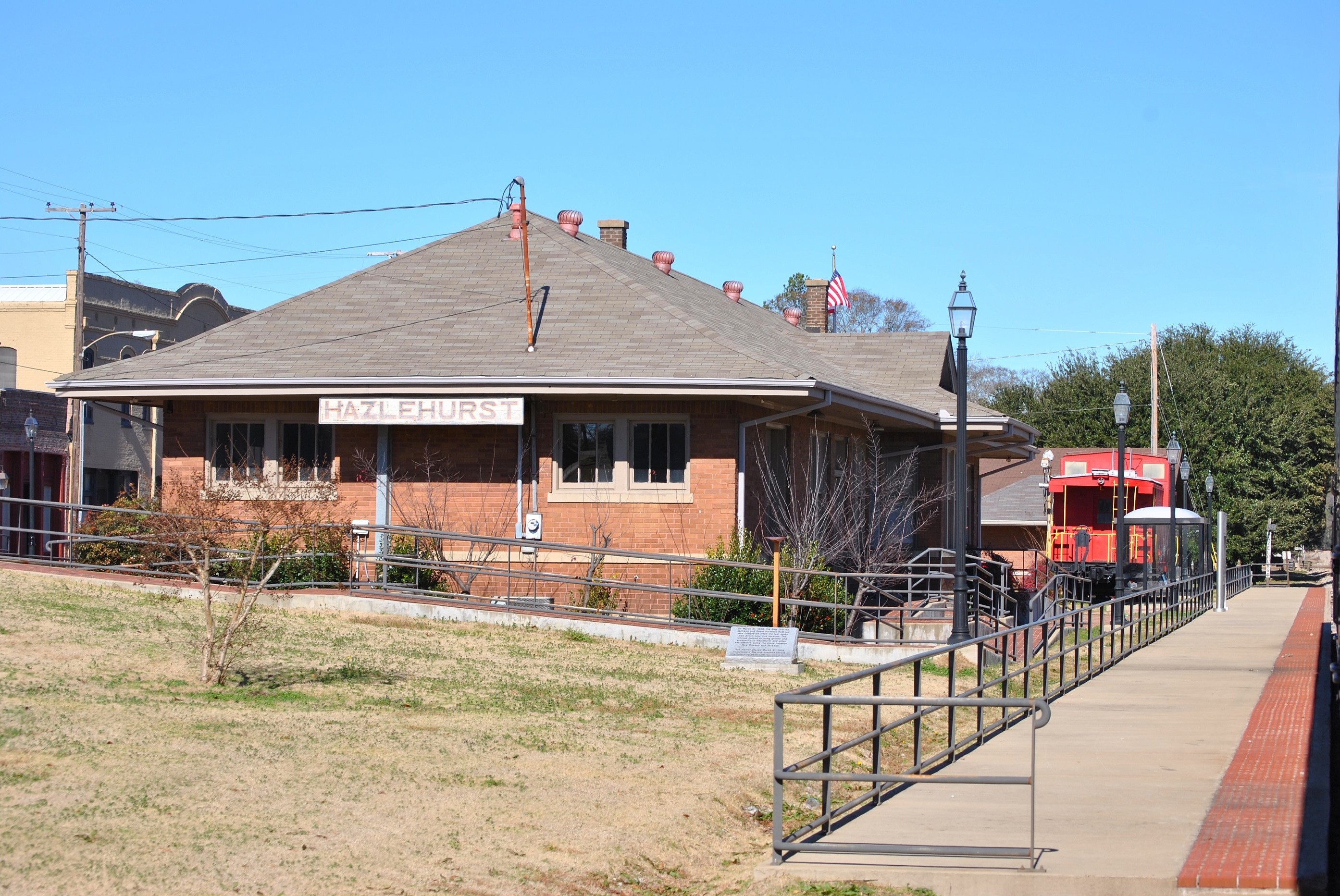 From the Southbound City Of New Orleans Train